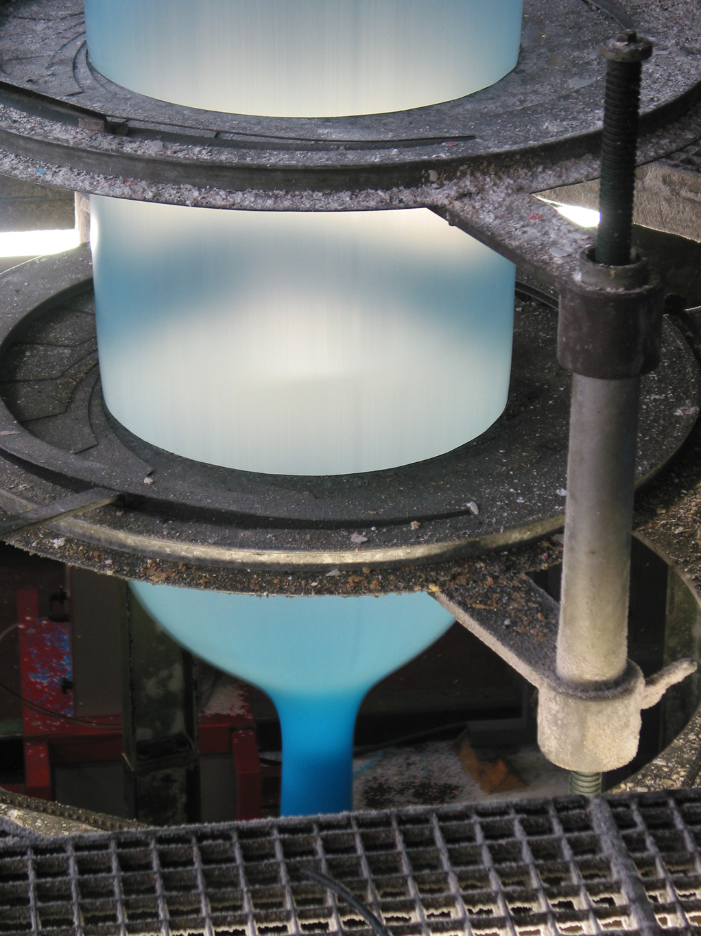 foto of a setup used for blow extrusion of plastic film